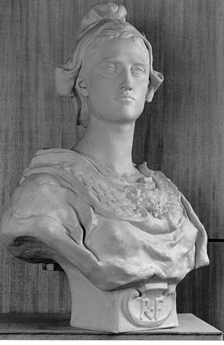 Jean Antoine Injalbert's 1889 bust of "Marianne" often called "La Republique"